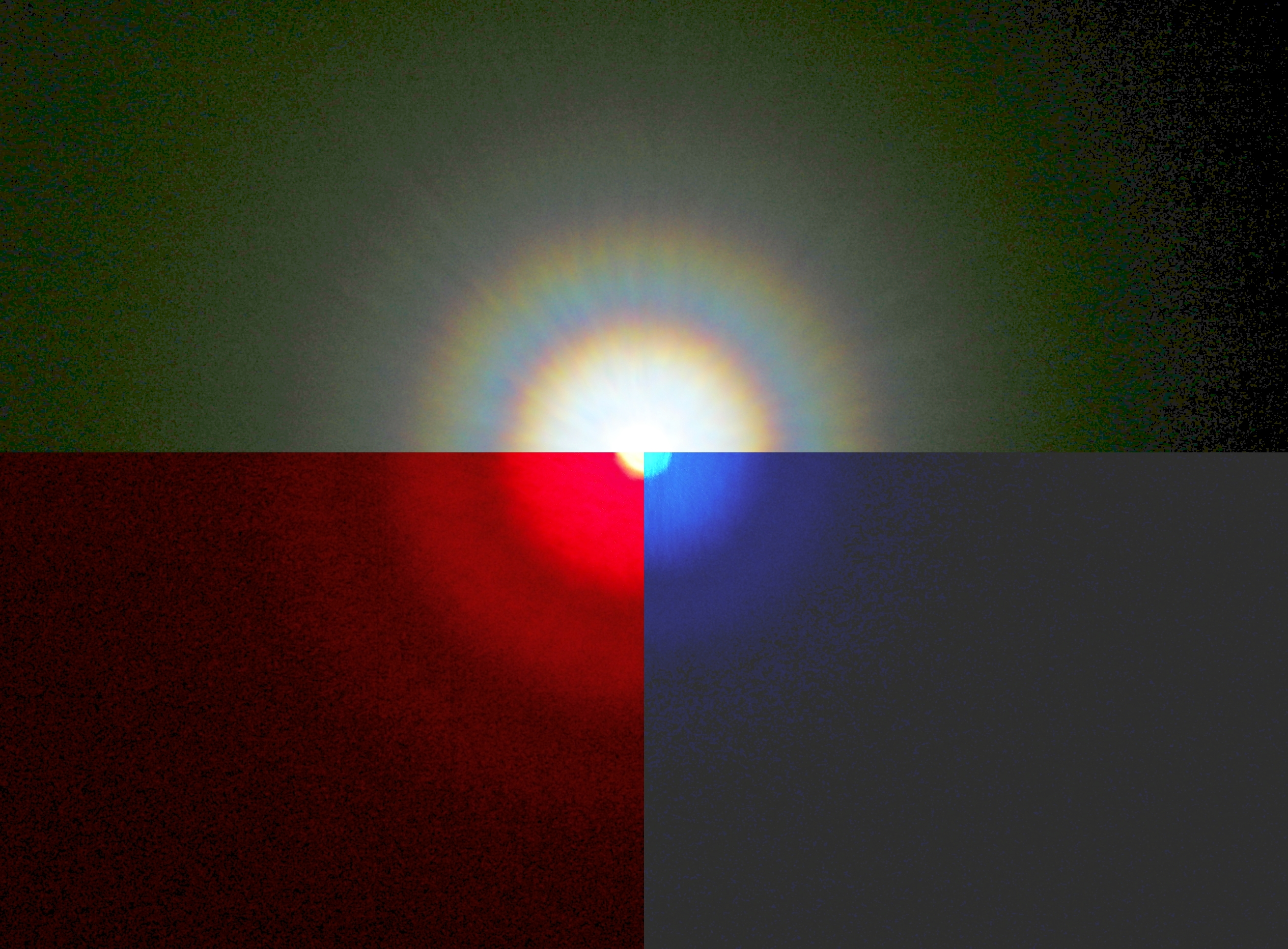 Artificial corona around LED lamps of different colors, created with lycopodium spores. As can be seen the diffraction rings of red light have a greater radius than those of blue light.